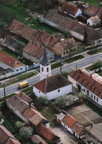 Dáka, Hungary, aerial photography